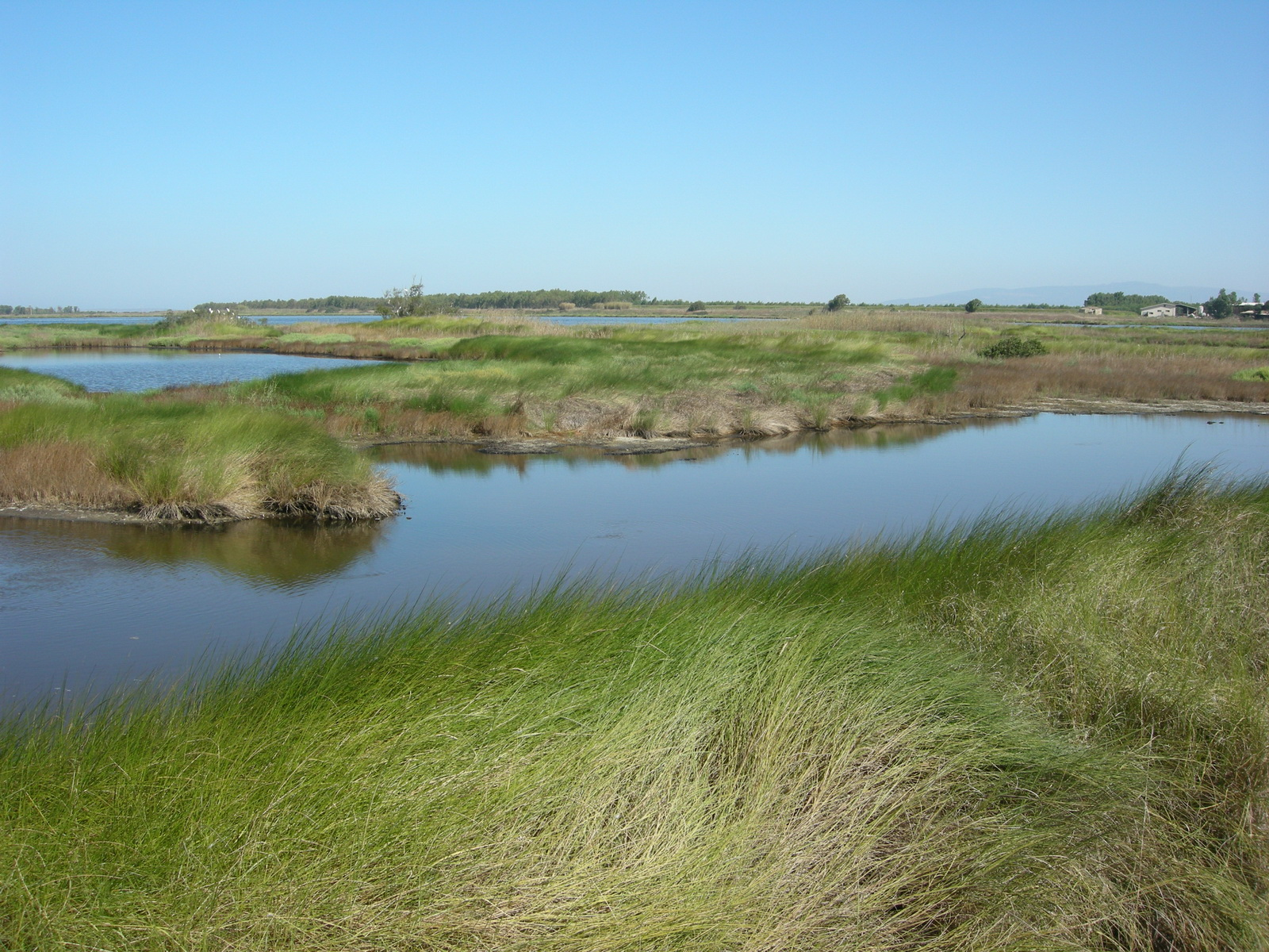 Pond of Santa Giusta